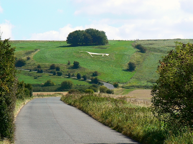 Hackpen White Horse, near Broad Hinton The image was taken from the next square north. The white horse is about 730 metres away to the south-east.